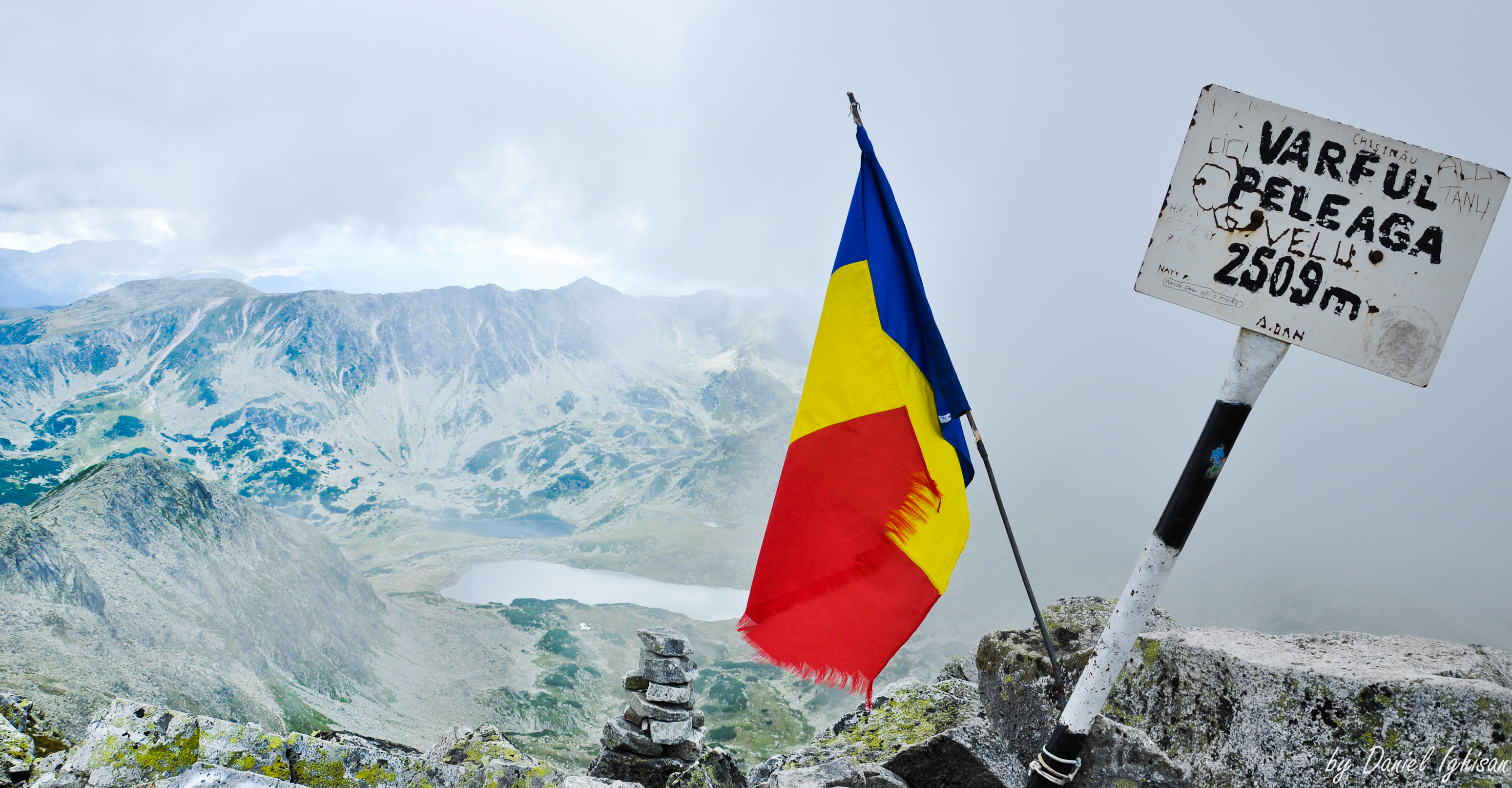 Peleaga Peak in Retezat Mountains / Carpathians (2509m)